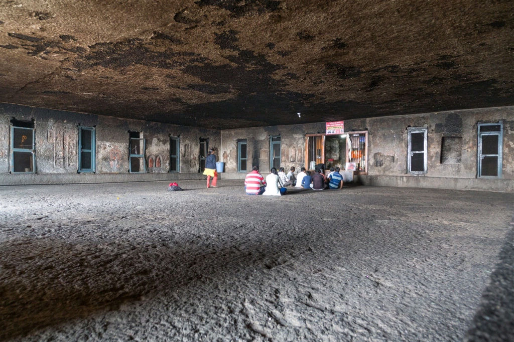 Lenyadri Cave 7